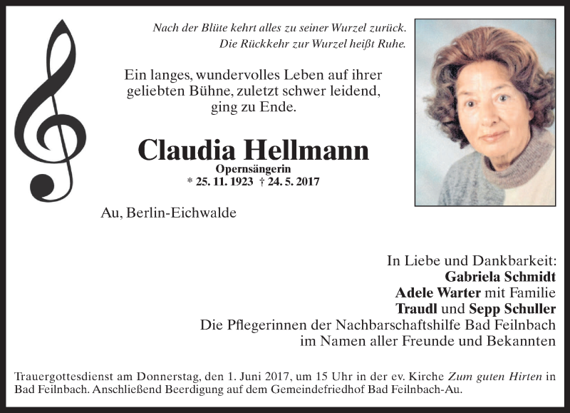 Death notice of Claudia Hellmann in the OVB (Newspaper from Rosenheim, Germany)